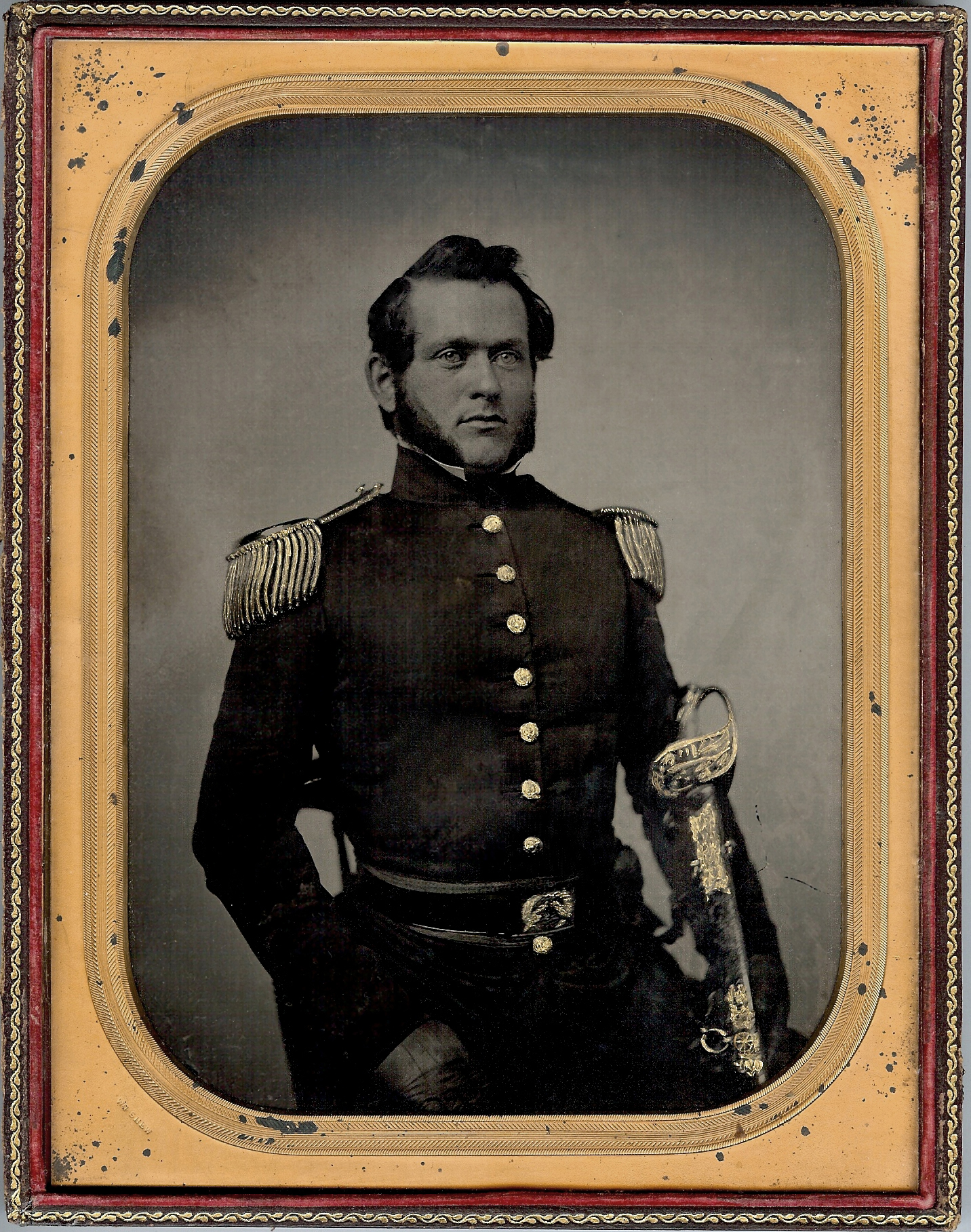 This is a pre-Civil War image of Reed while serving in the First Light Dragoons in California.